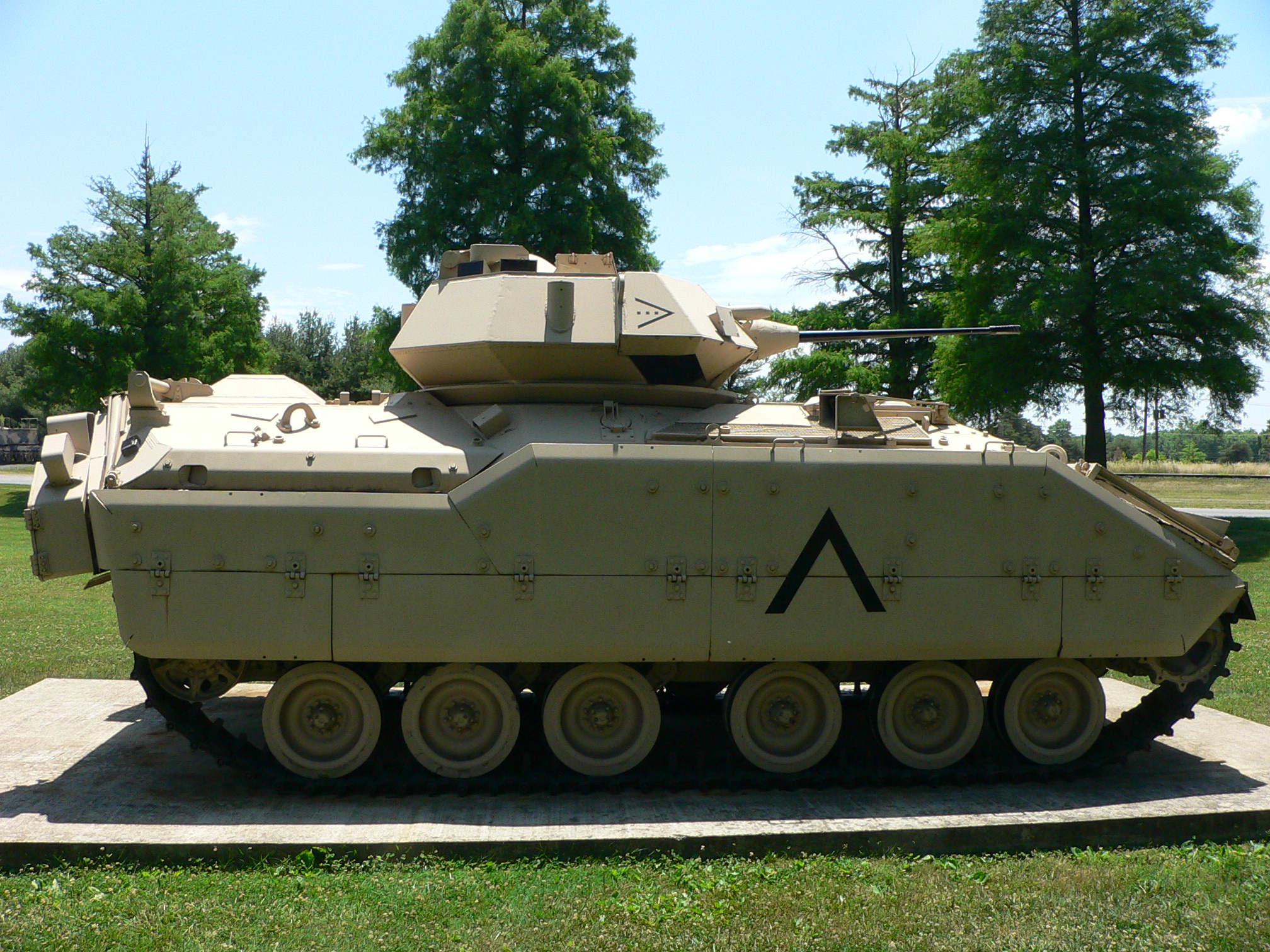 Picture taken by myself, Mark Pellegrini, at the United States Army Ordnance Museum (Aberdeen Proving Ground, MD) on June 12, 2007.